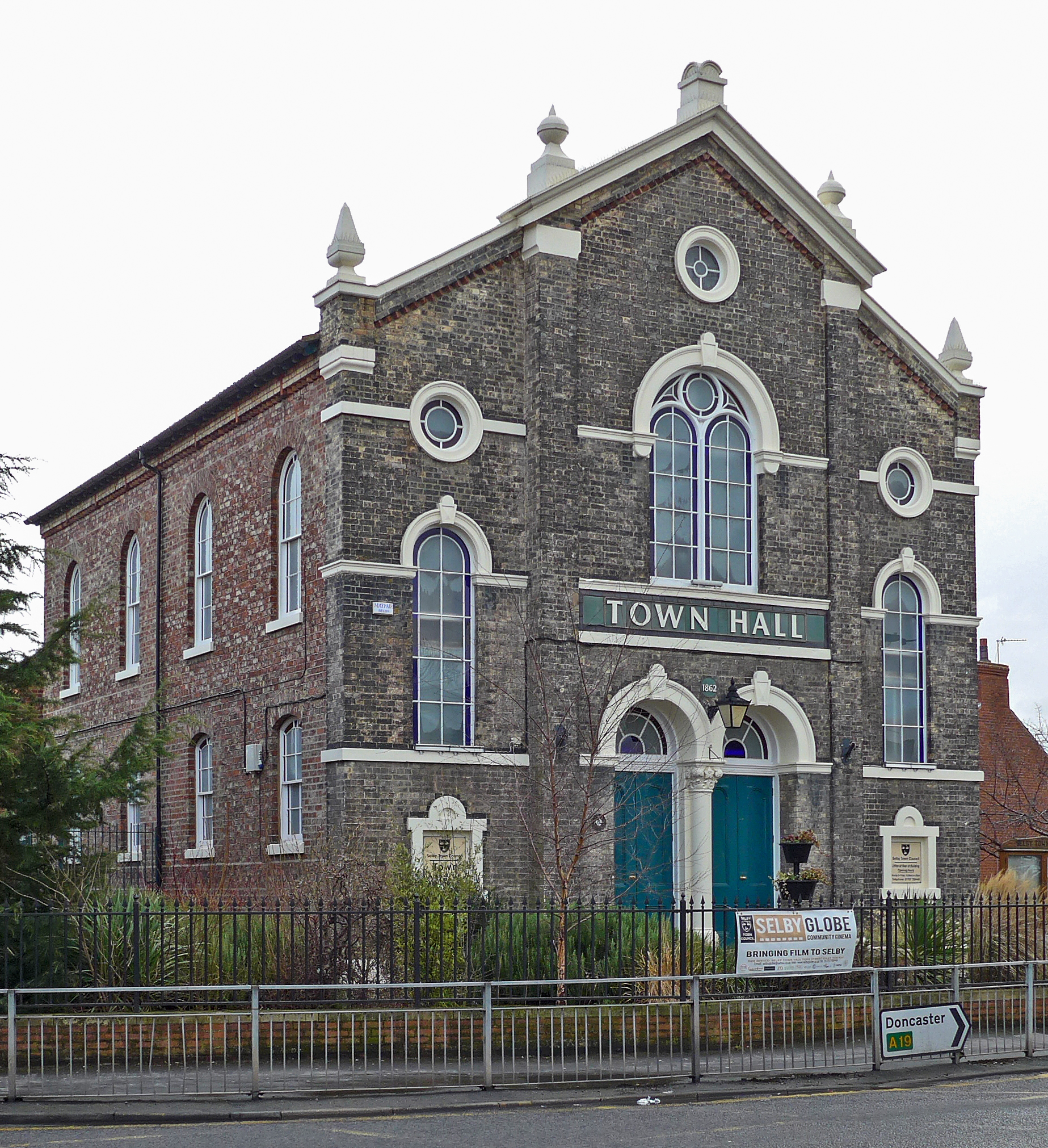 Selby Town Hall, Selby, North Yorkshire. Taken by Flickr user:Tim Green aka atouch on Saturday the 31st of December 2015.